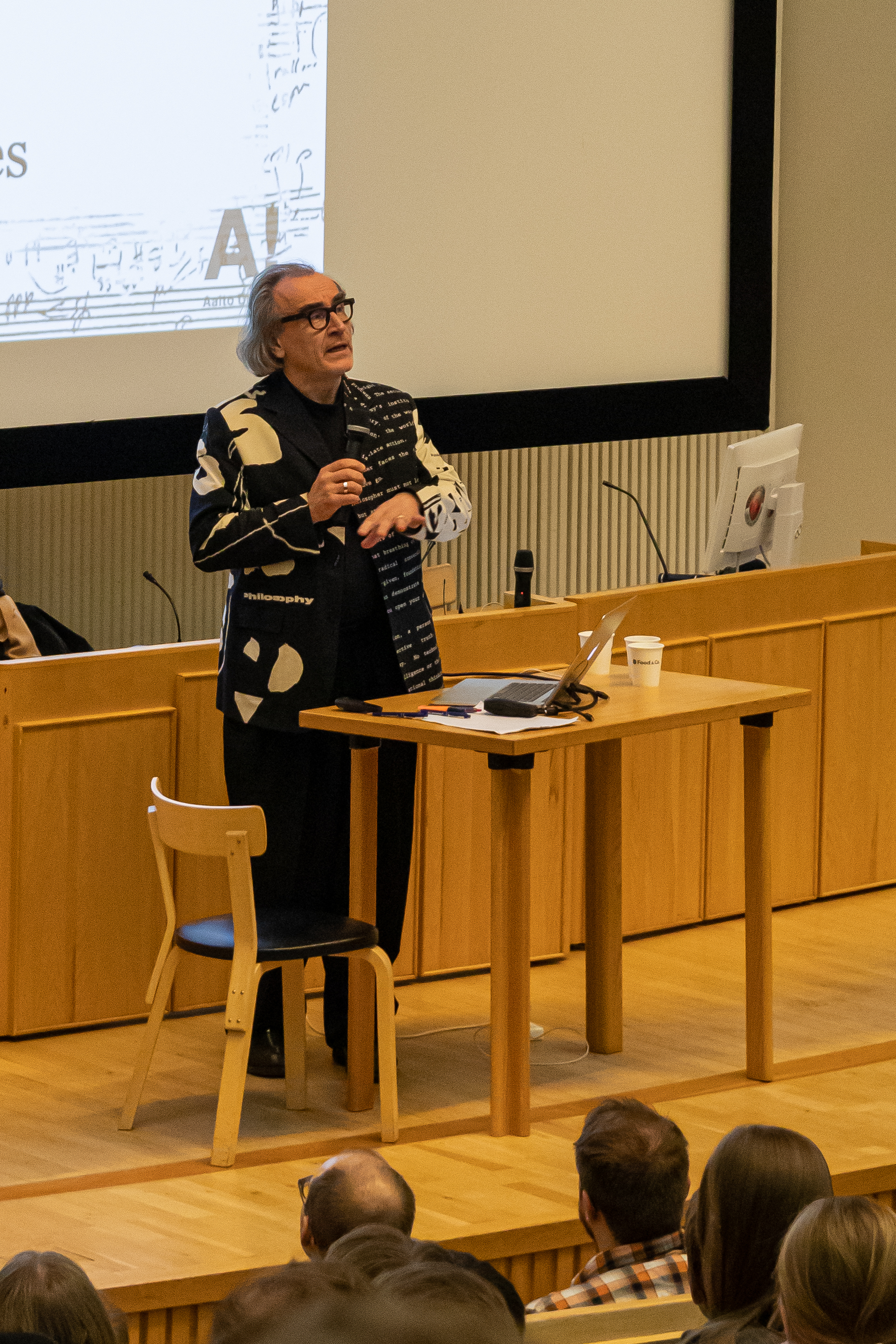 Philosopher Esa Saarinen opens the first lecture of the 2020 edition of his course on philosophy and systems thinking at Aalto University in January 2020.